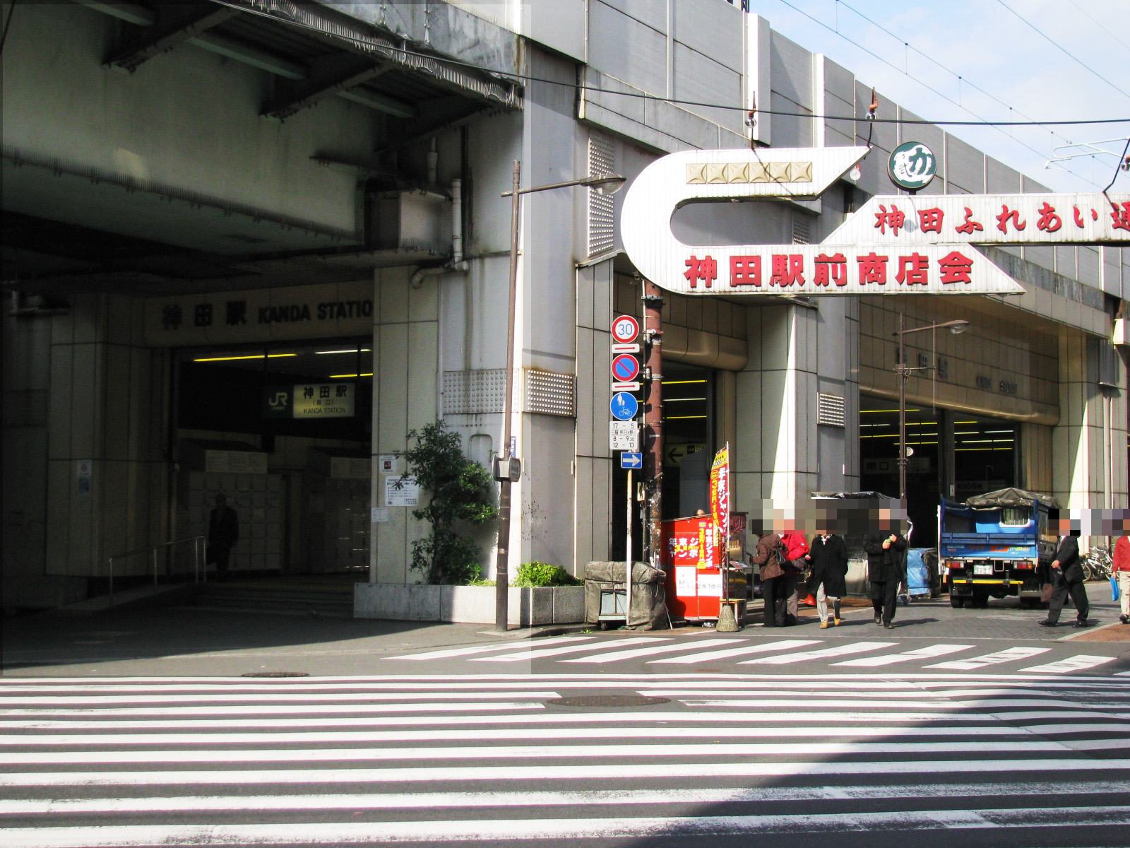 JR Kanda station on JR Tohoku main line.